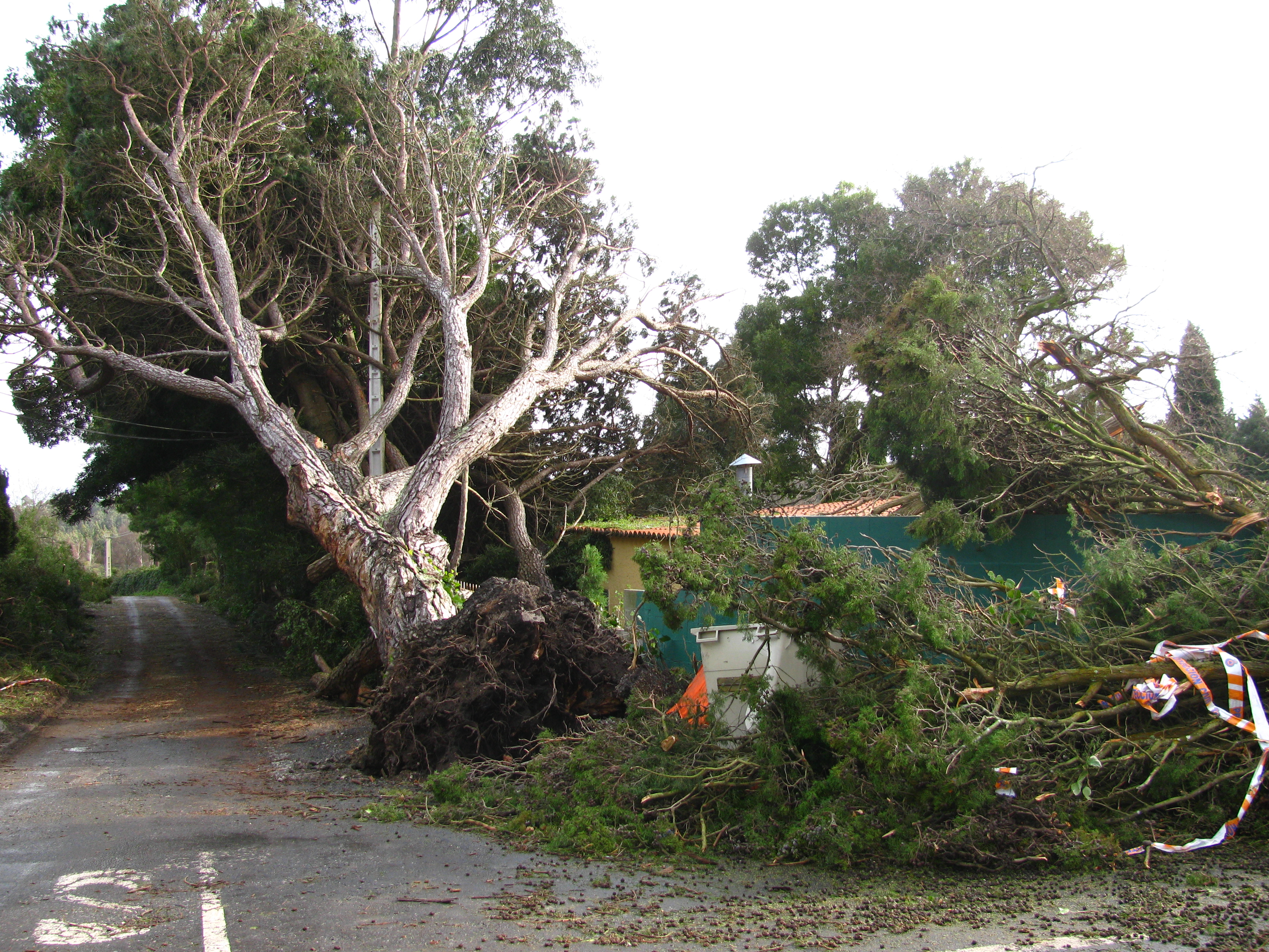 Uprooted trees from January 2009 Biscaya storm near La Coruña